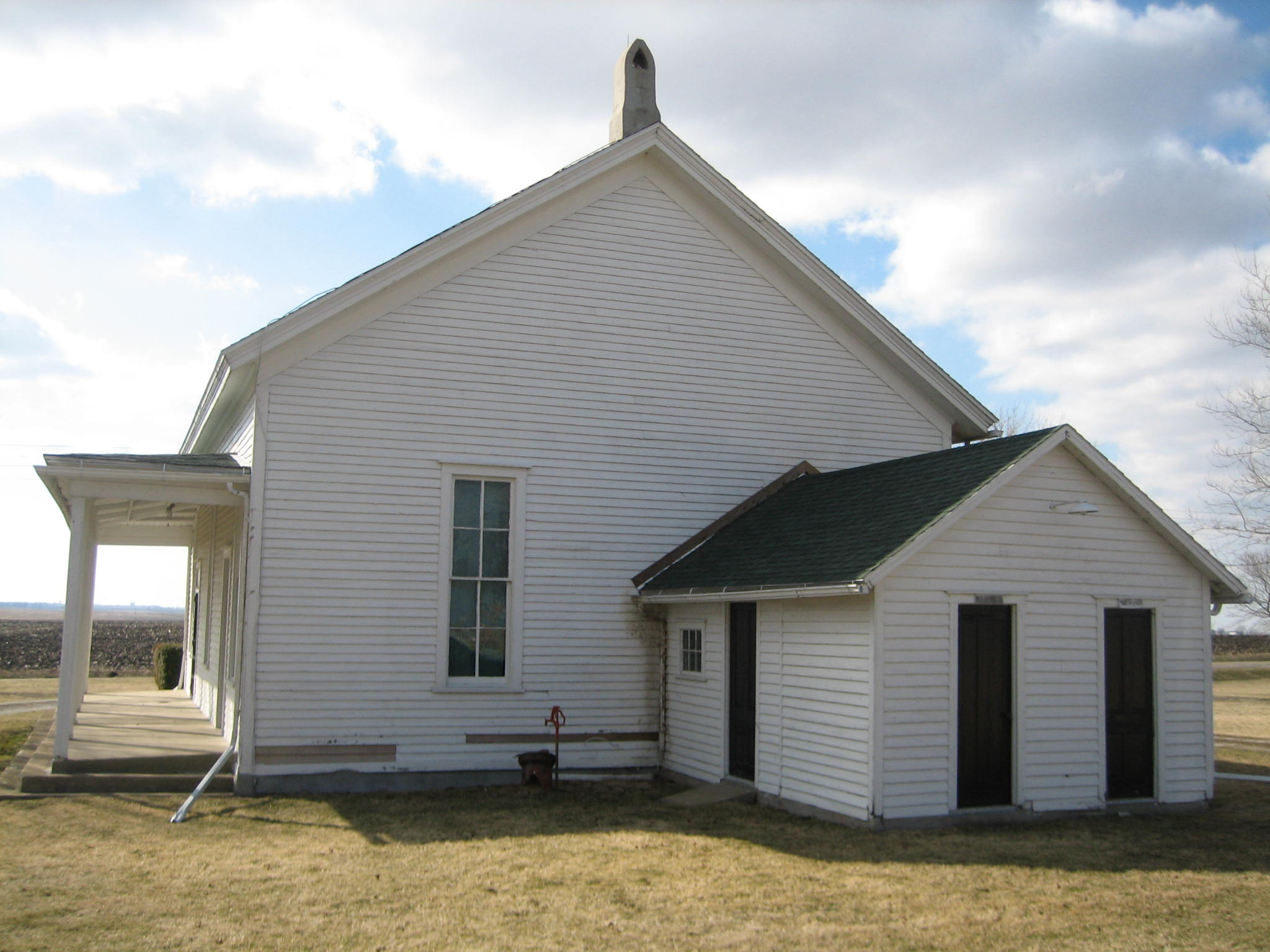 Benjaminville Friends Meeting House and Burial Ground, 9 miles east of Bloomington, Illinois, near the small community of Holder, Illinois. National Register of Historic Places.